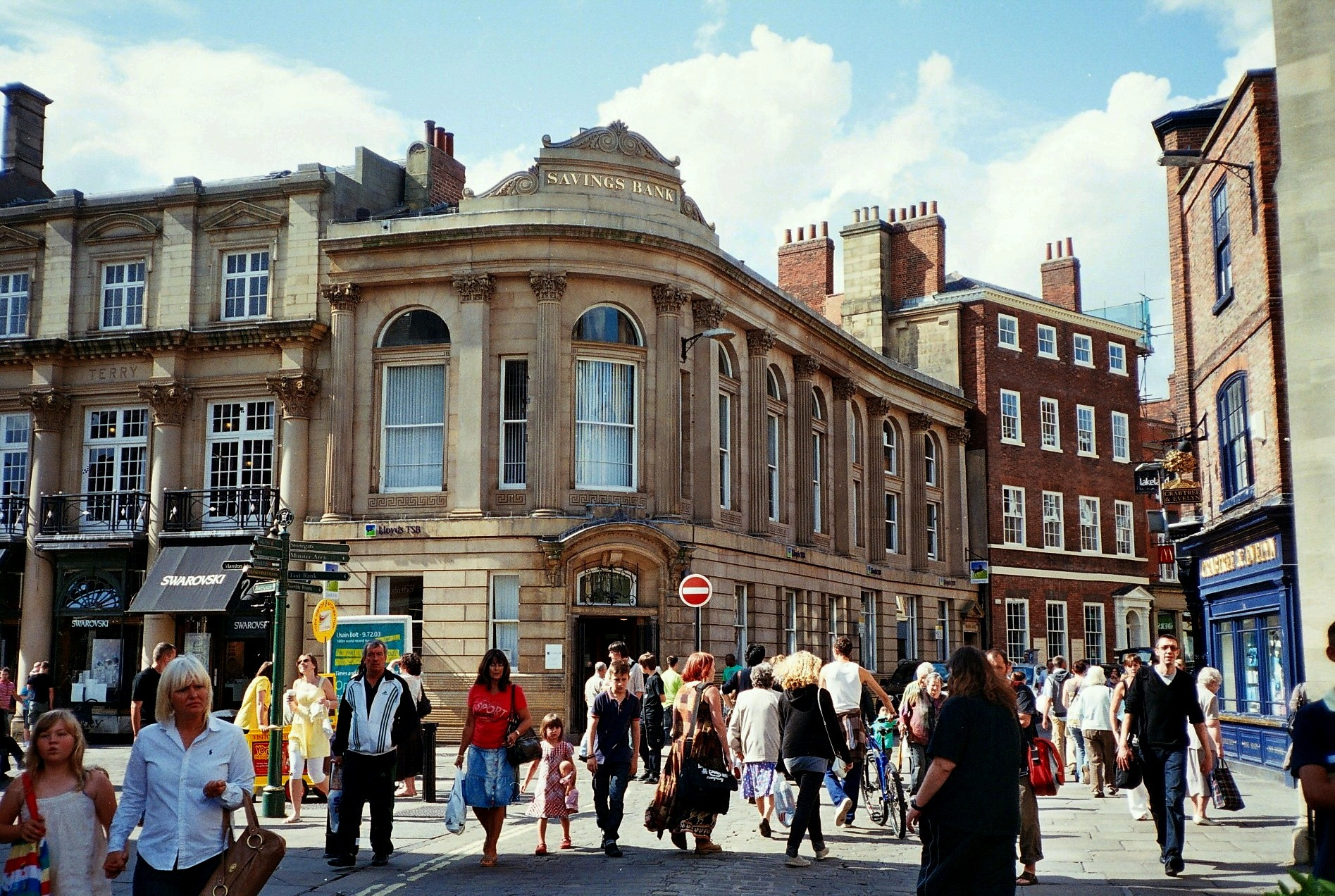 The Savings Bank, St Helen's Square, York, built 1829-30 by James Pigott Pritchett. It is now a branch of Lloyds Bank.